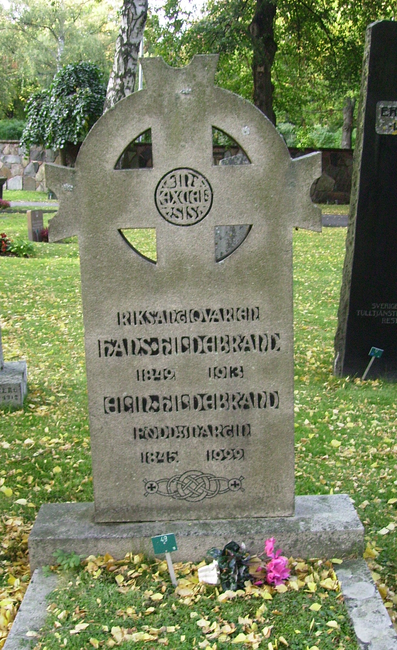 Picture of Hans Hildebrand's grave at Solna kyrkogård